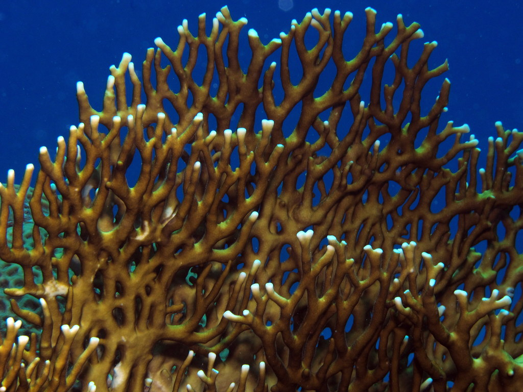 Contrast of fire coral and blue water at Paradise Reef, Red Sea, Egypt #SCUBA